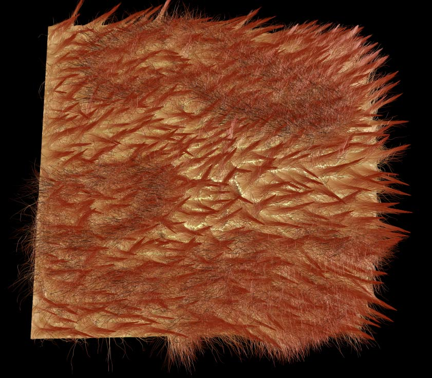 Wet fur, simulated using computer graphics software (Maya)